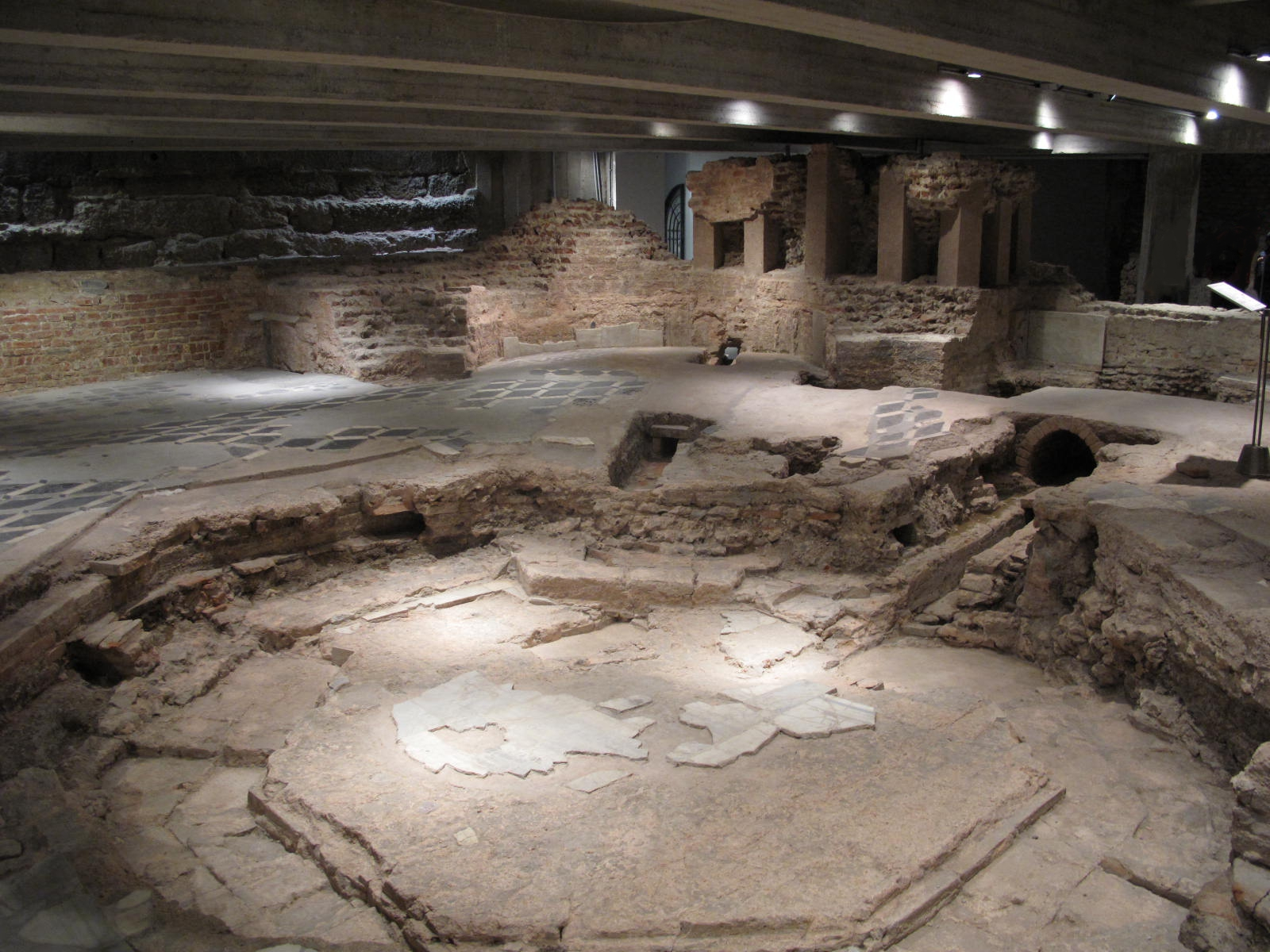 Ruins of the Baptistery of San Giovanni alle Fonti in Milan (second half 4th century)